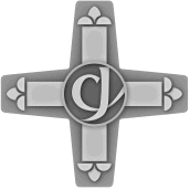 Emblem of Congregatio Jesu, branch of the Mary Ward congregation, founded in 1609